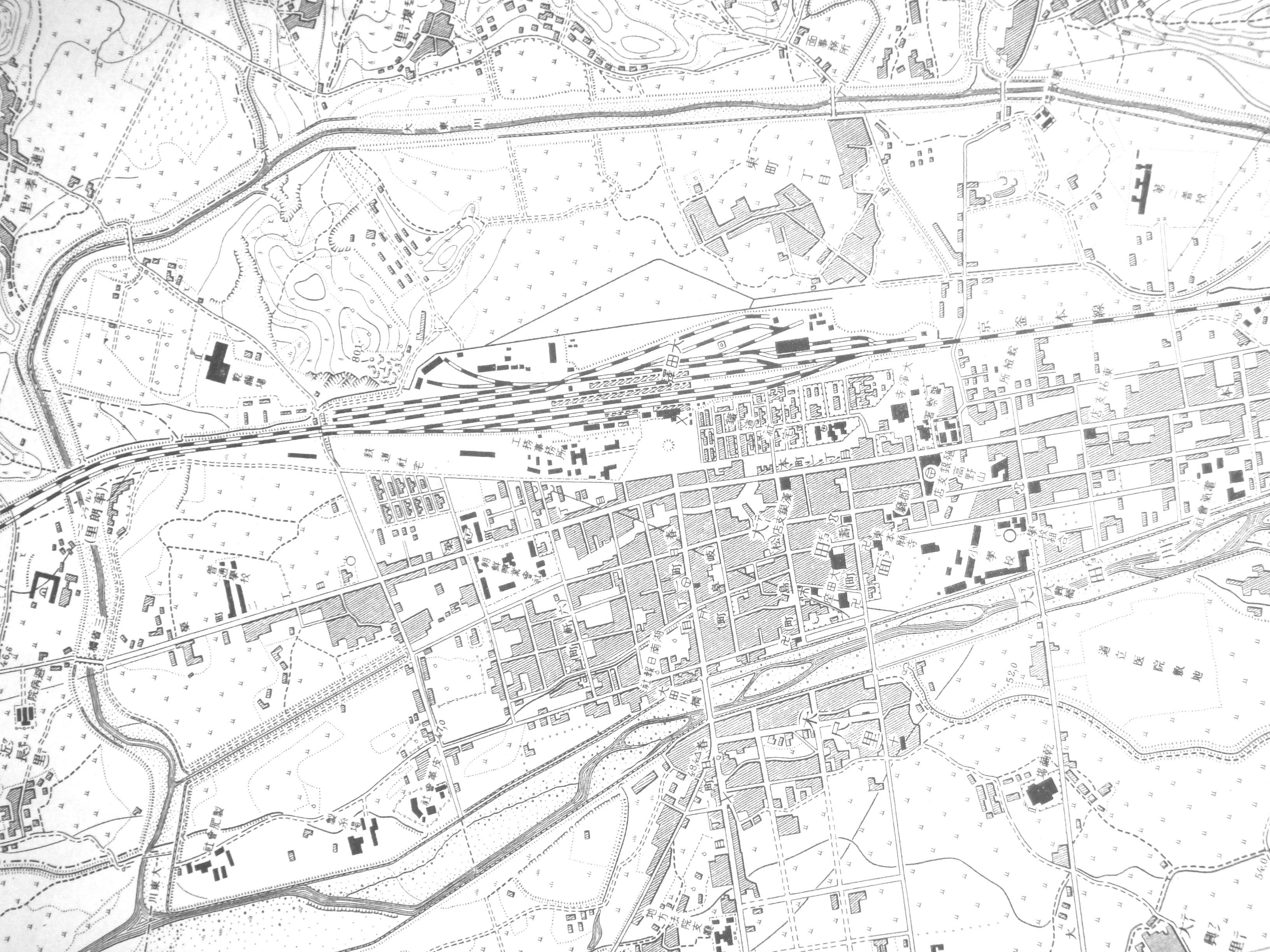 Map of Daejeon, 1928